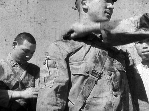 Giretsu Kuteitai - improving their camoflage before their attack on the Yuntan airfield on Okinawa. May 24, 1945.